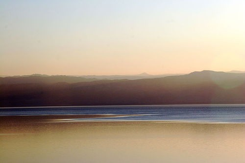 Dead Sea at Dusk 2005. Taken by Nick Fraser.